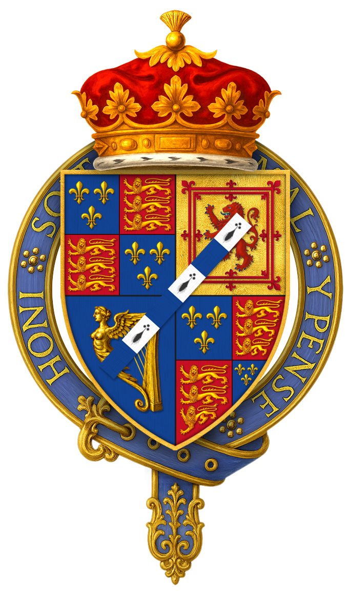 Coat of arms of George FitzRoy, 1st Duke of Northumberland, KG